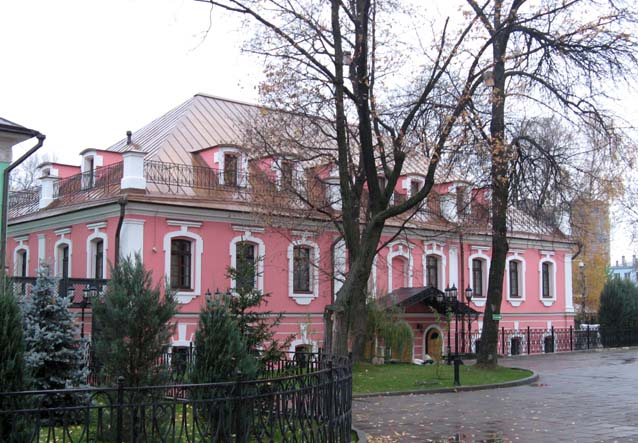 Moscow Pokrovsky Monastery's Building